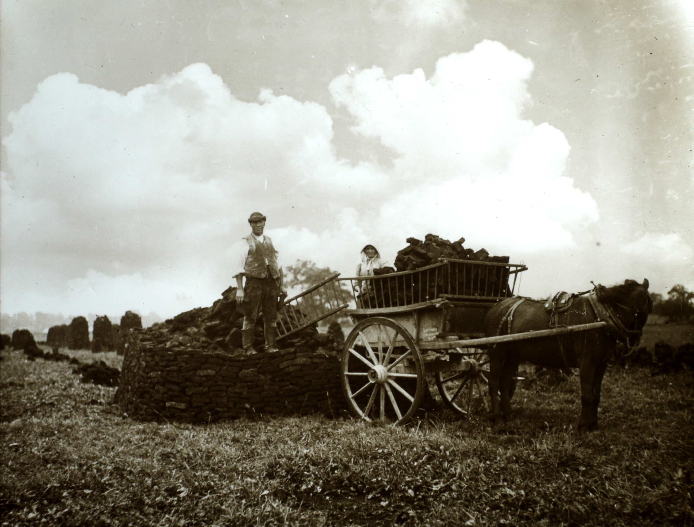 Sept 1905 - photo by A.E.Hasse of Baildon York. Original on 6x6 glass slide diapositive